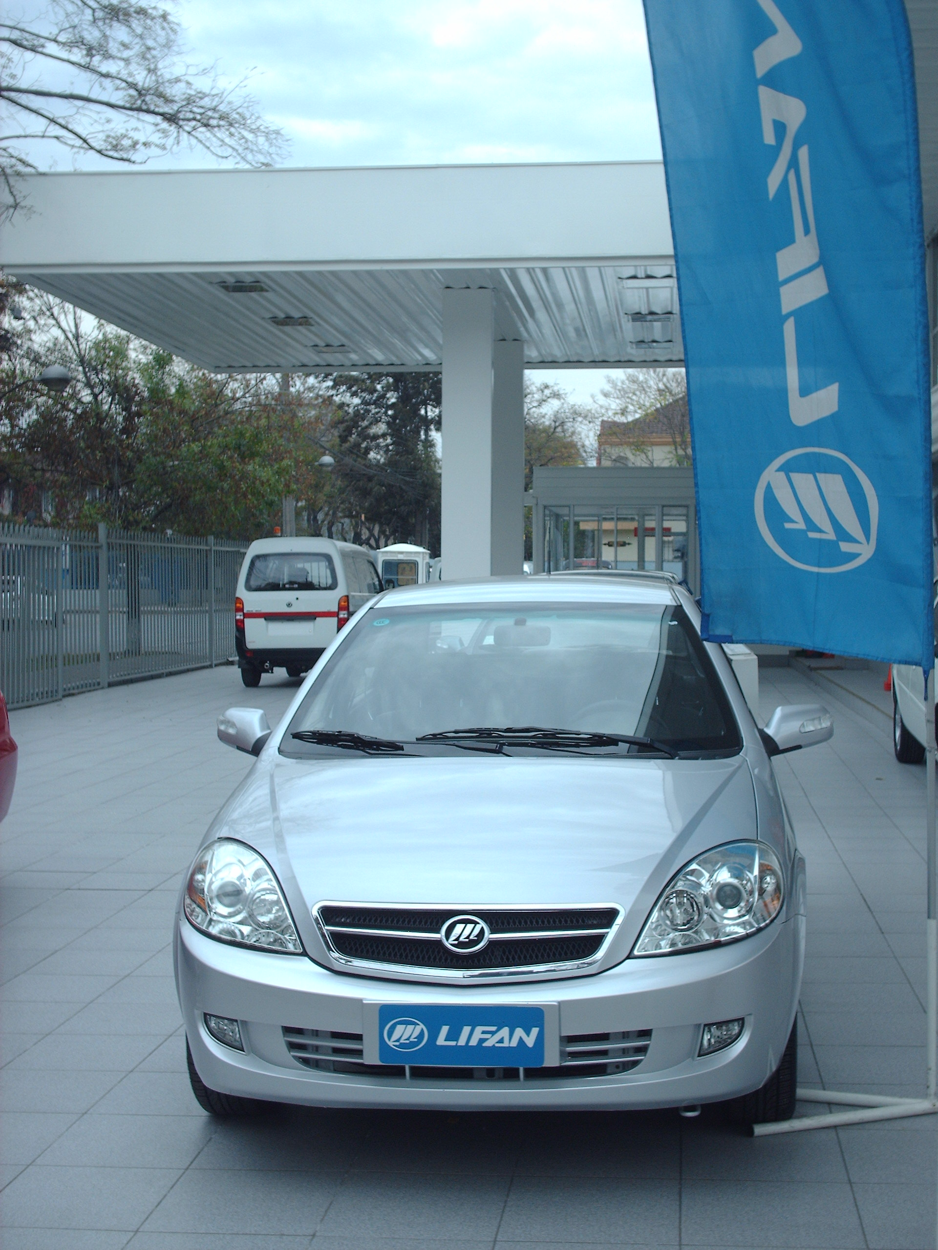 Lifan 520 in Av. Bustamante, Santiago, Chile.